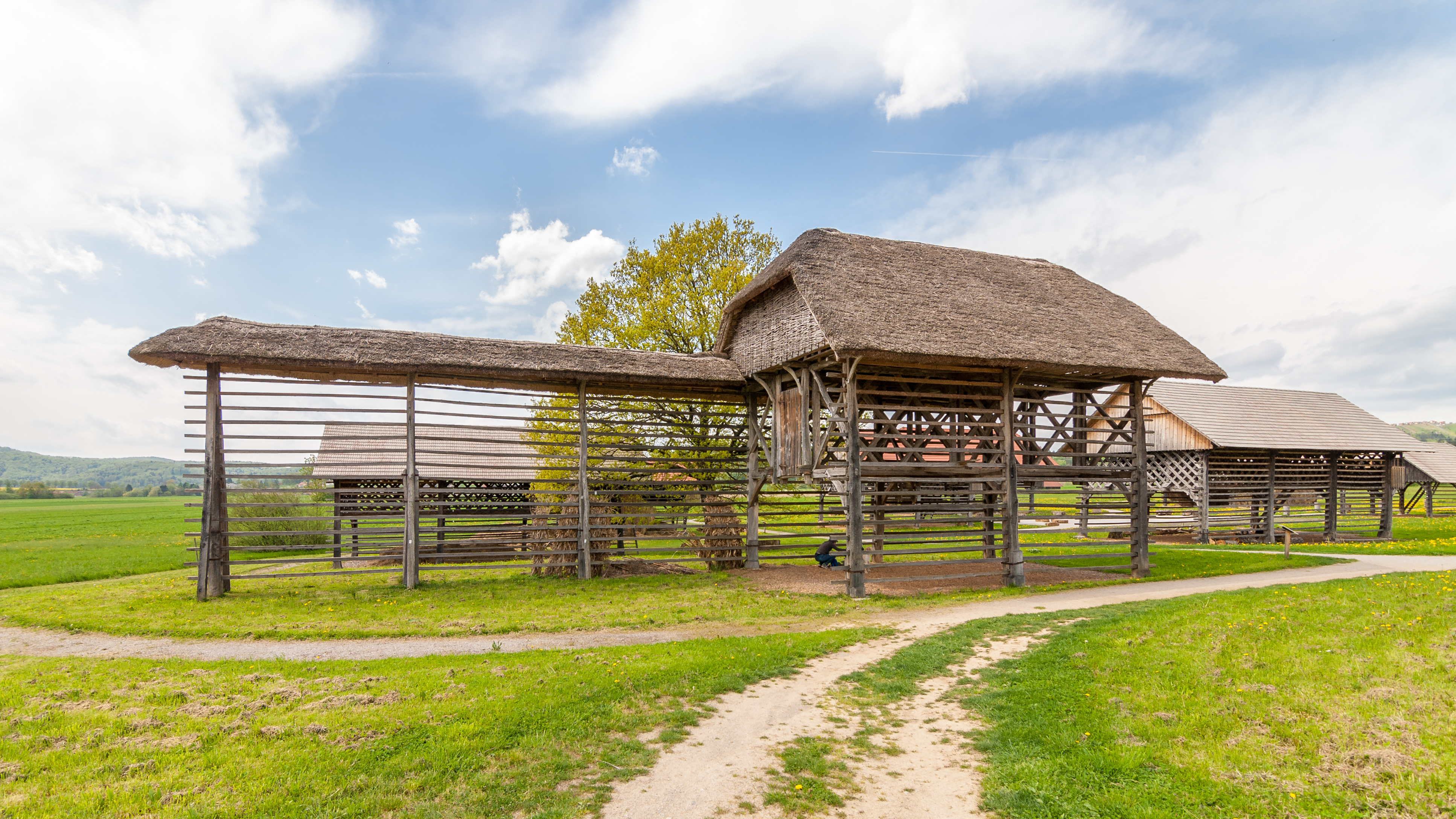 Roofed double hayrack with extension in open air museum "Land of Hayracks" in Šentrupert, Slovenia